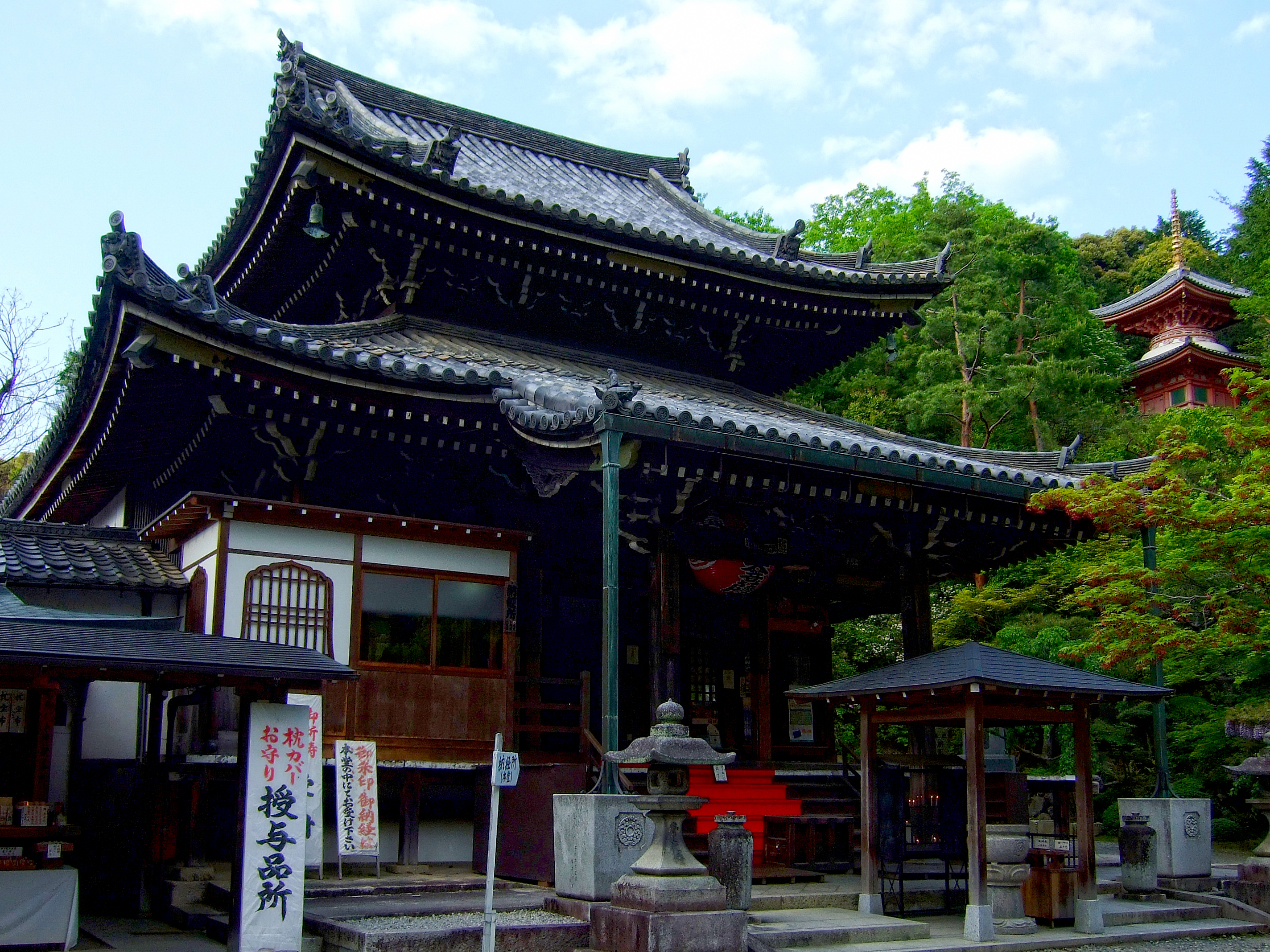 Imakumano Kannon-ji in Kyoto, Kyoto prefecture, Japan.